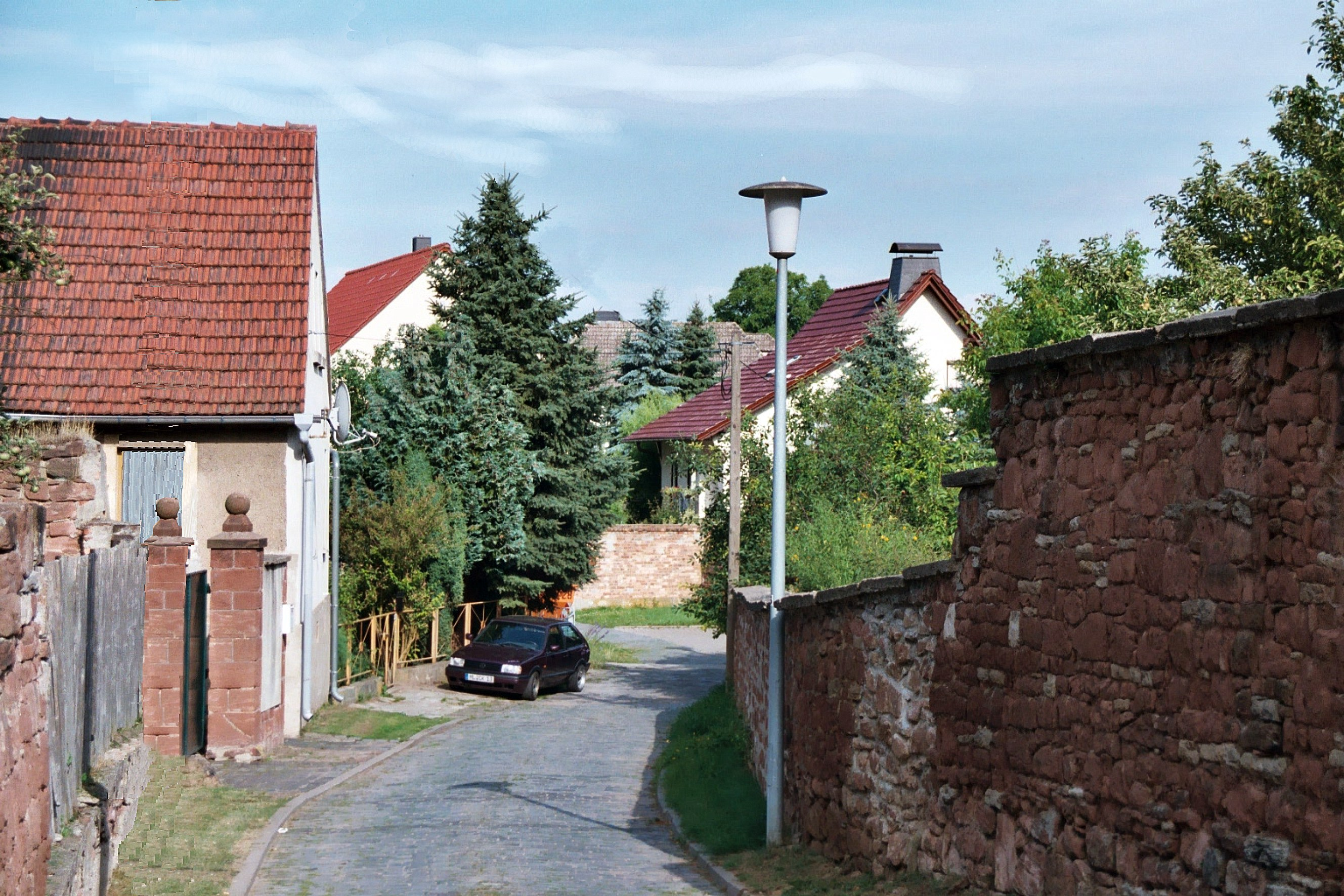 Rothenschirmbach (Lutherstadt Eisleben), the Dorfstraße